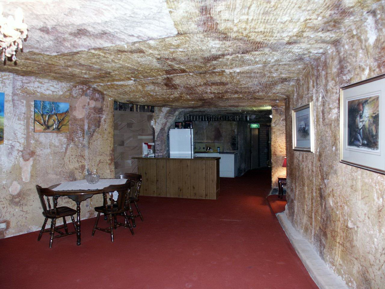 Coober Pedy, South Australia - underground house display.